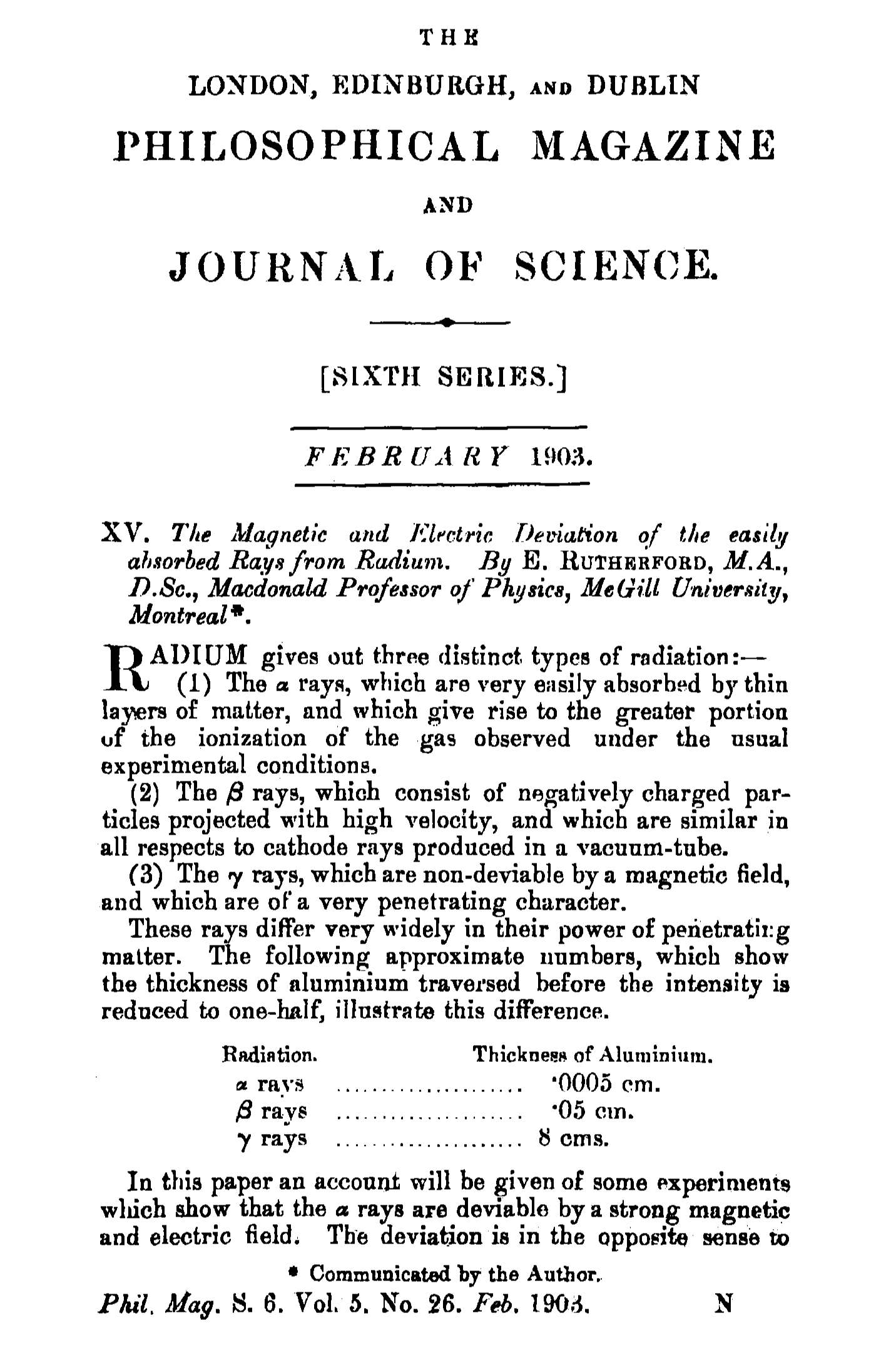 First page of Ernest Rutherford's The Magnetic and Electric Deviation of the Easily Absorbed Rays from Radium (1903).